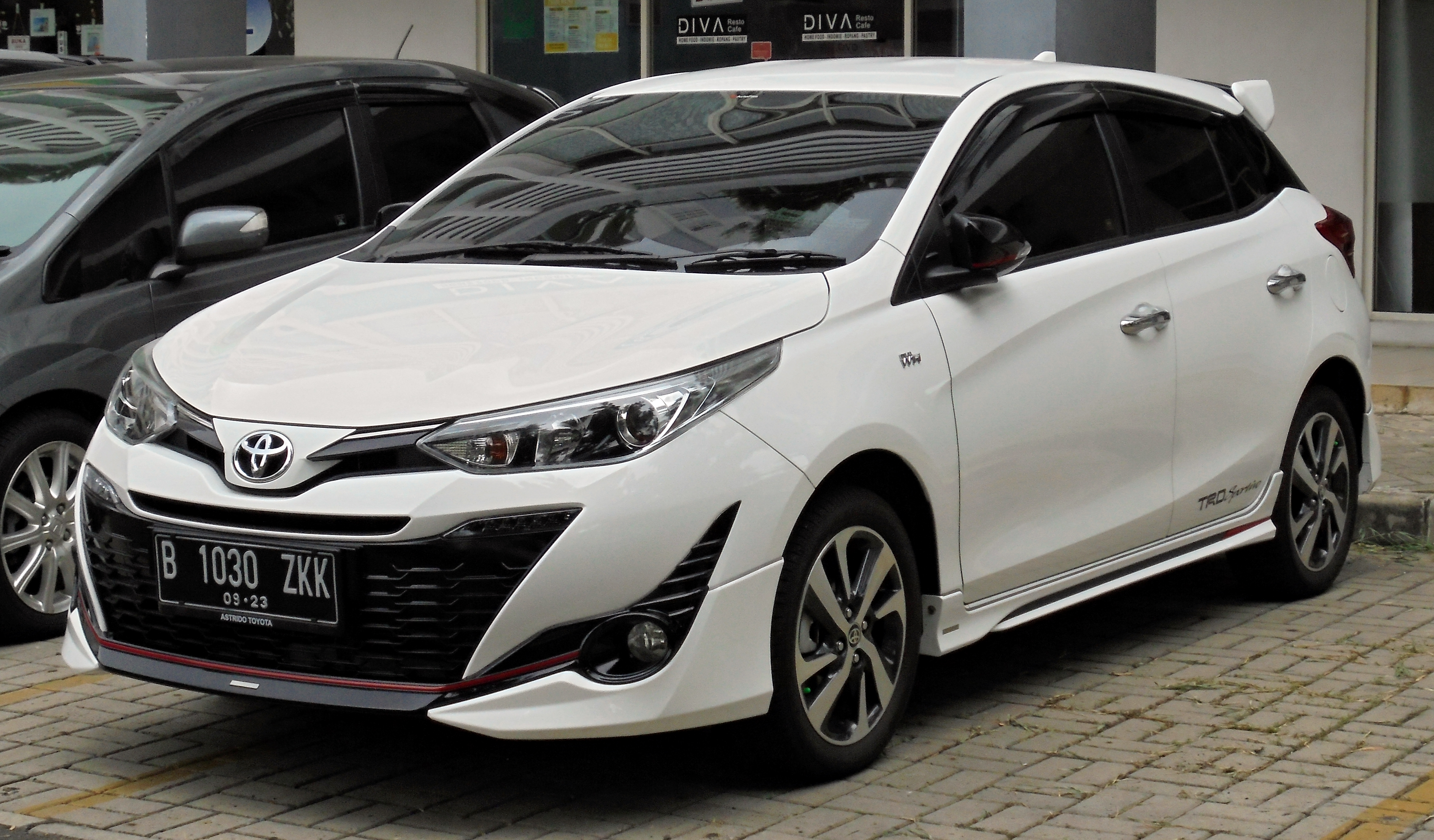 2018 Toyota Yaris 1.5 S TRD Sportivo hatchback (NSP151R) photographed in South Tangerang, Banten, Indonesia.